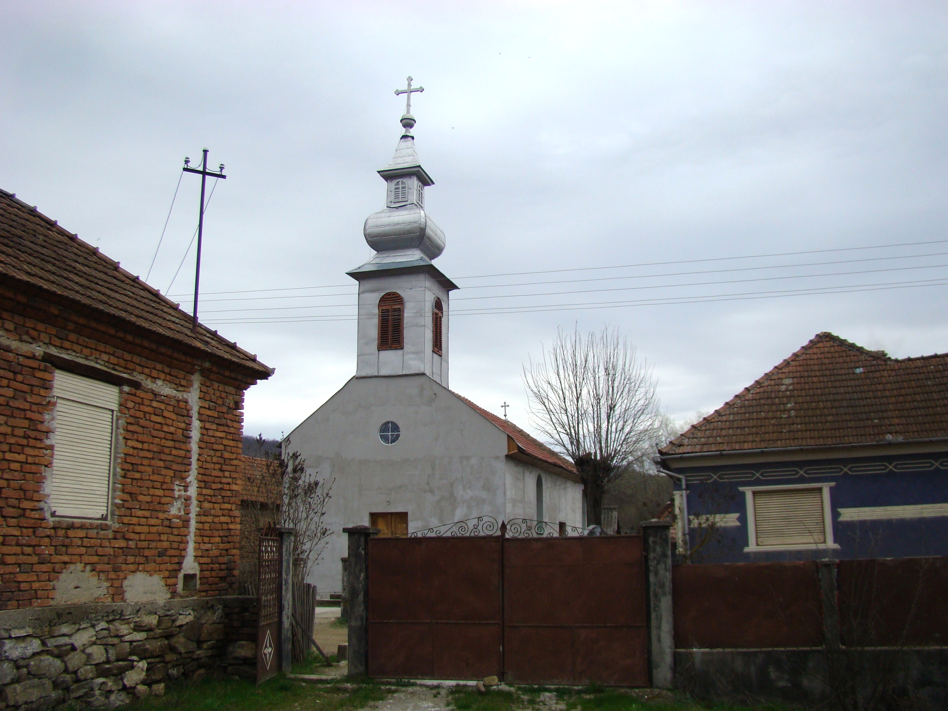 Wooden church in Baia, Arad county, Romania